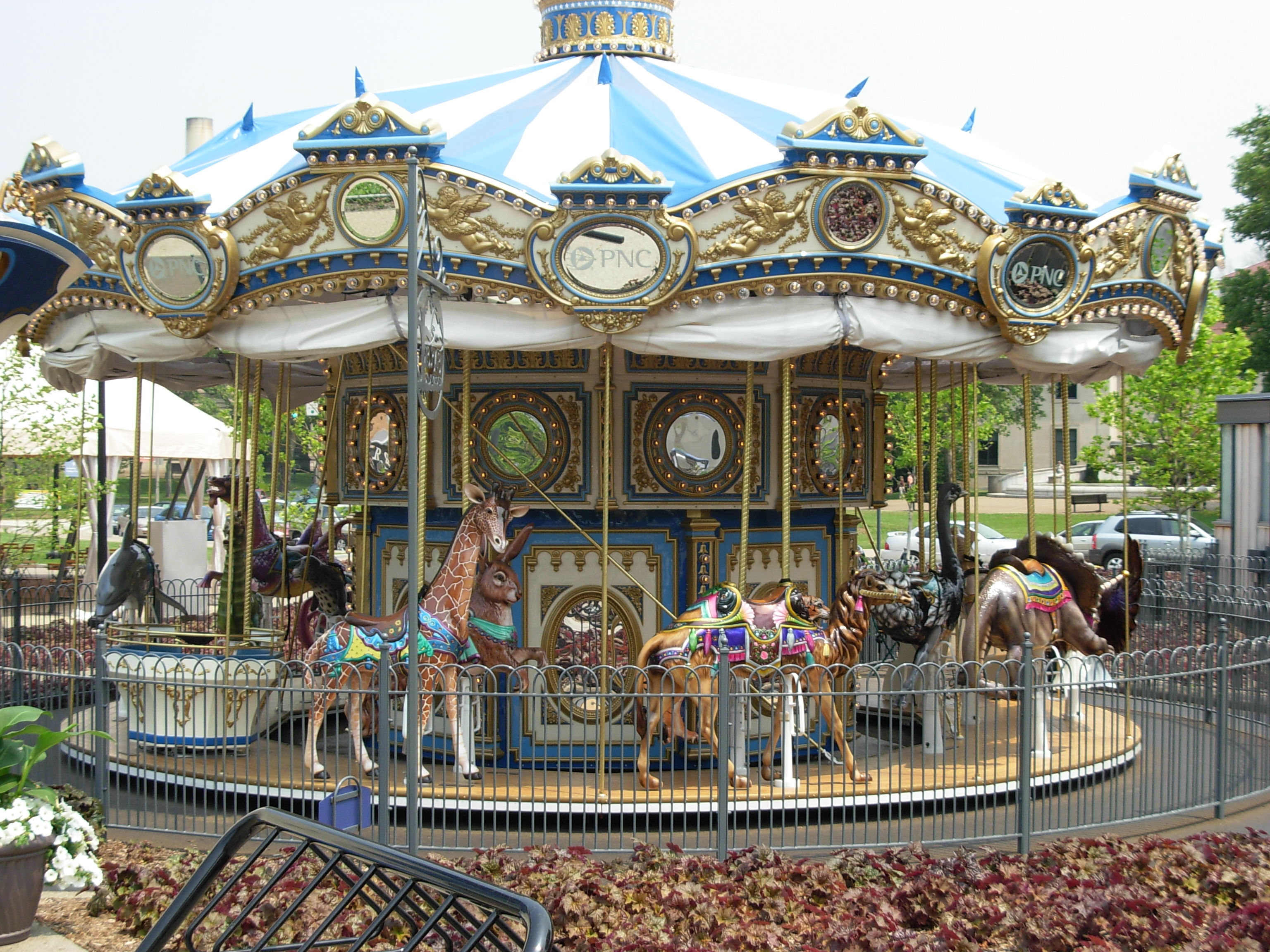 Carousel at Shenley Plaza, University of Pittsburgh.